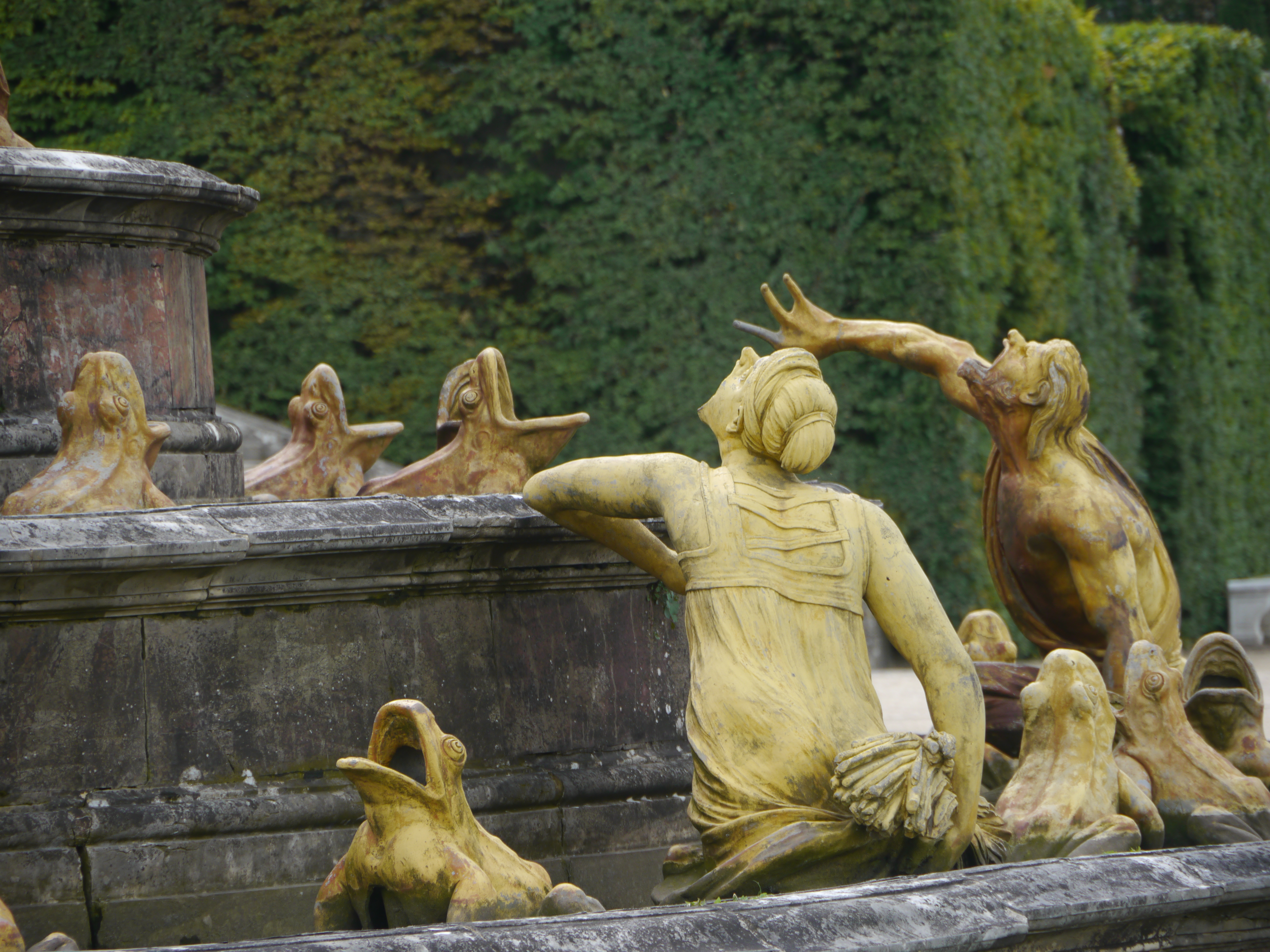 Photograph taken at the Park of the 'Château de Versailles' in France.